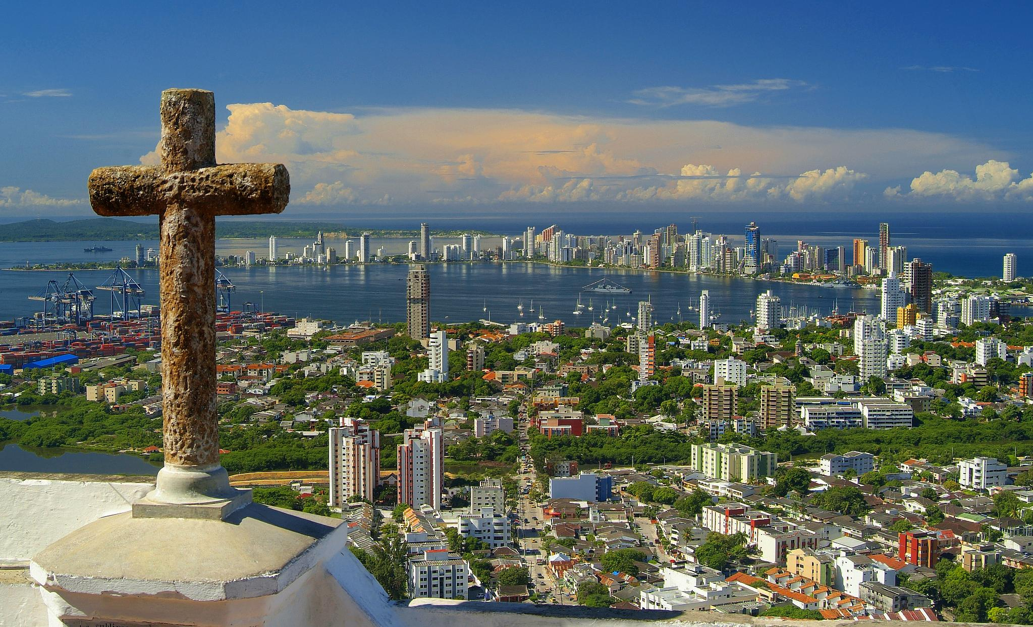 View of the Santa Cruz de Manga Islands, Boca Grande and Castillo Grande and Tierra Bomba seen from Cerro de la Popa. Cartagena de Indias, Colombia.